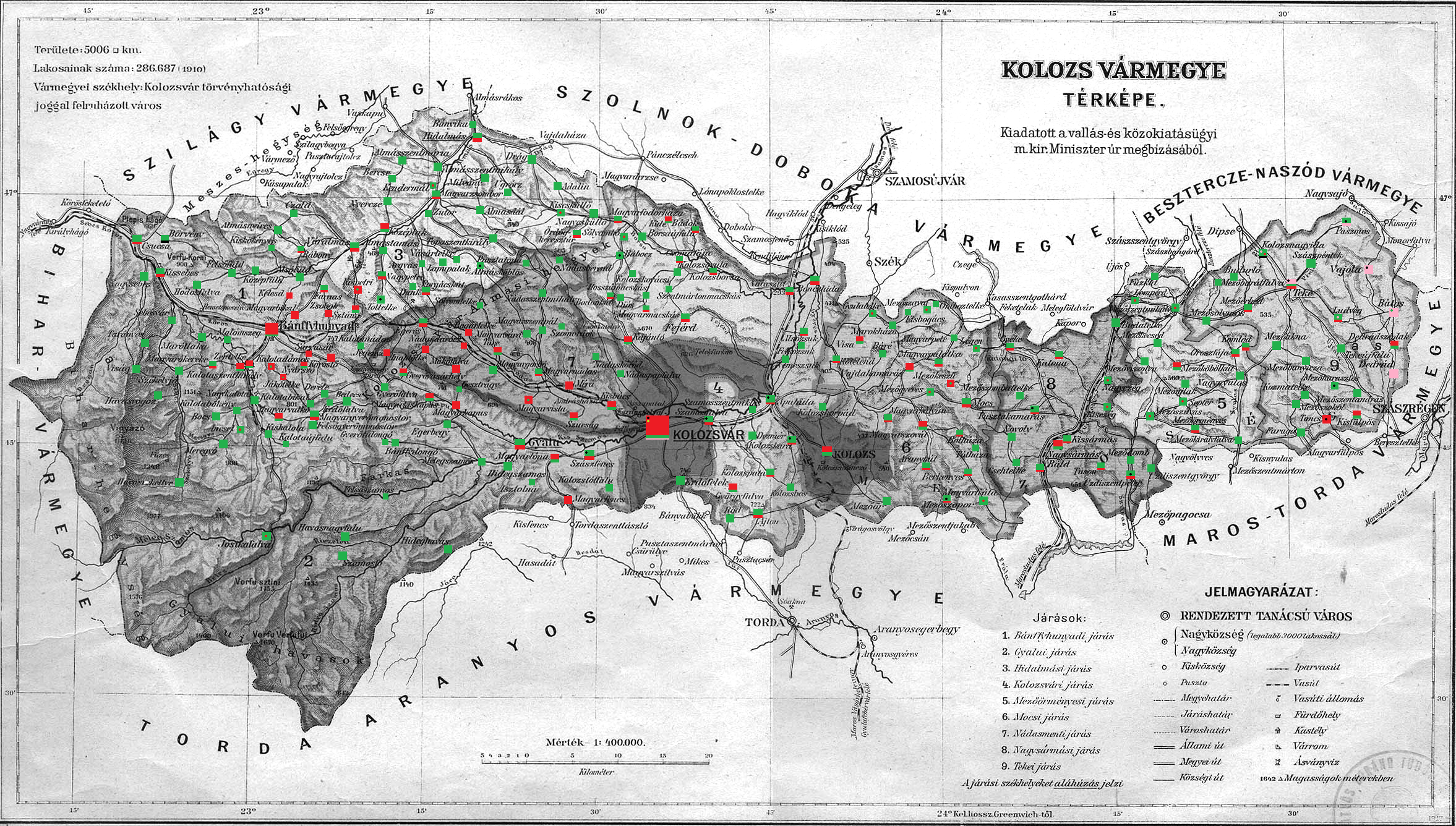 Ethnic map of the county (with data of the 1910 census). Key: dark green - Romanians; red - Hungarians; pink - Germans; black - Roma; light green - Slovaks. Coloured dots in plain rectangles imply the presence of smaller minority populations (generally more than 100 people or 10%). Multicoloured rectangles imply cities and villages with multi-ethnic populations with the order of the stripes following the ethnic composition of the settlement.